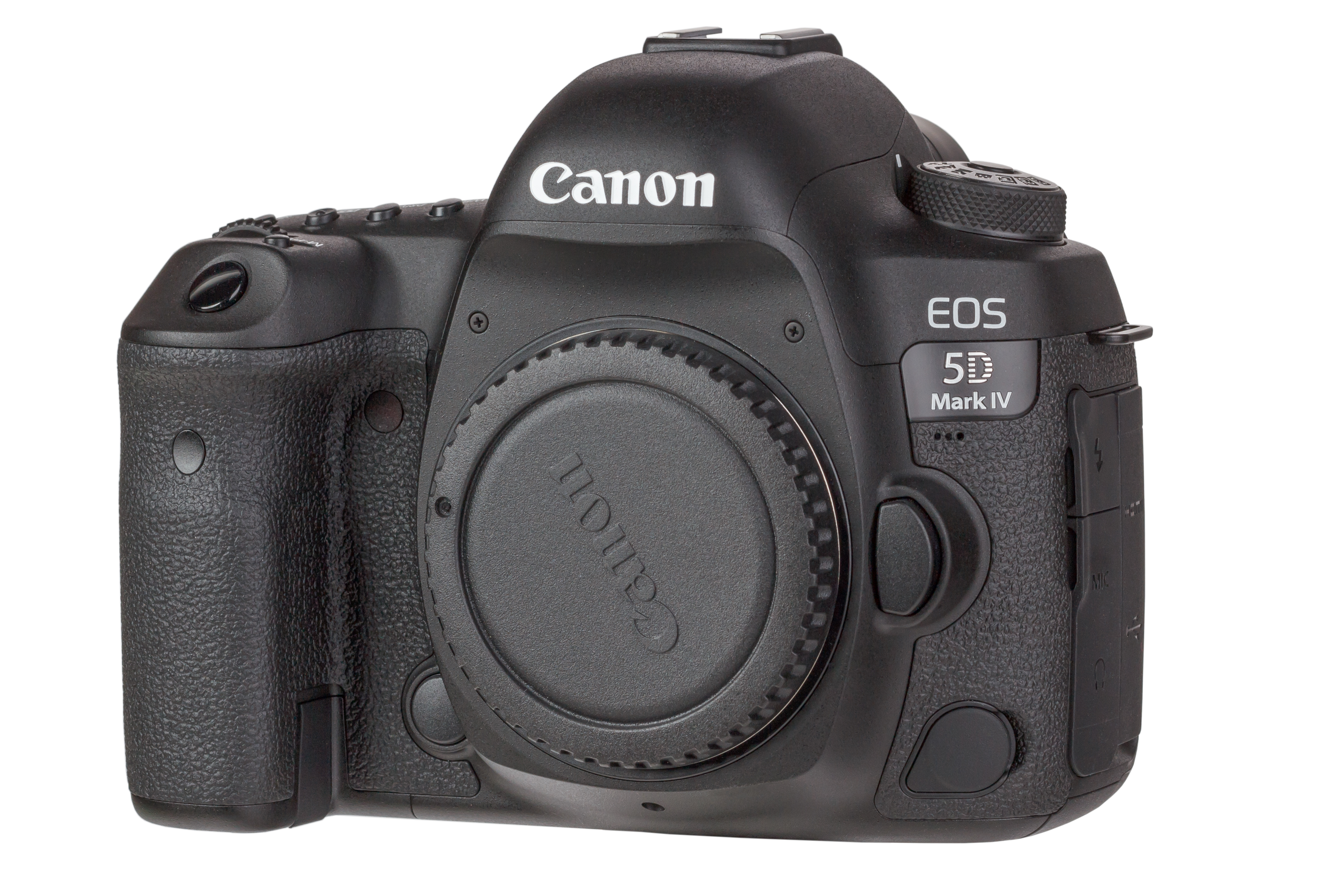 Canon EOS 5D Mark IV, Front view